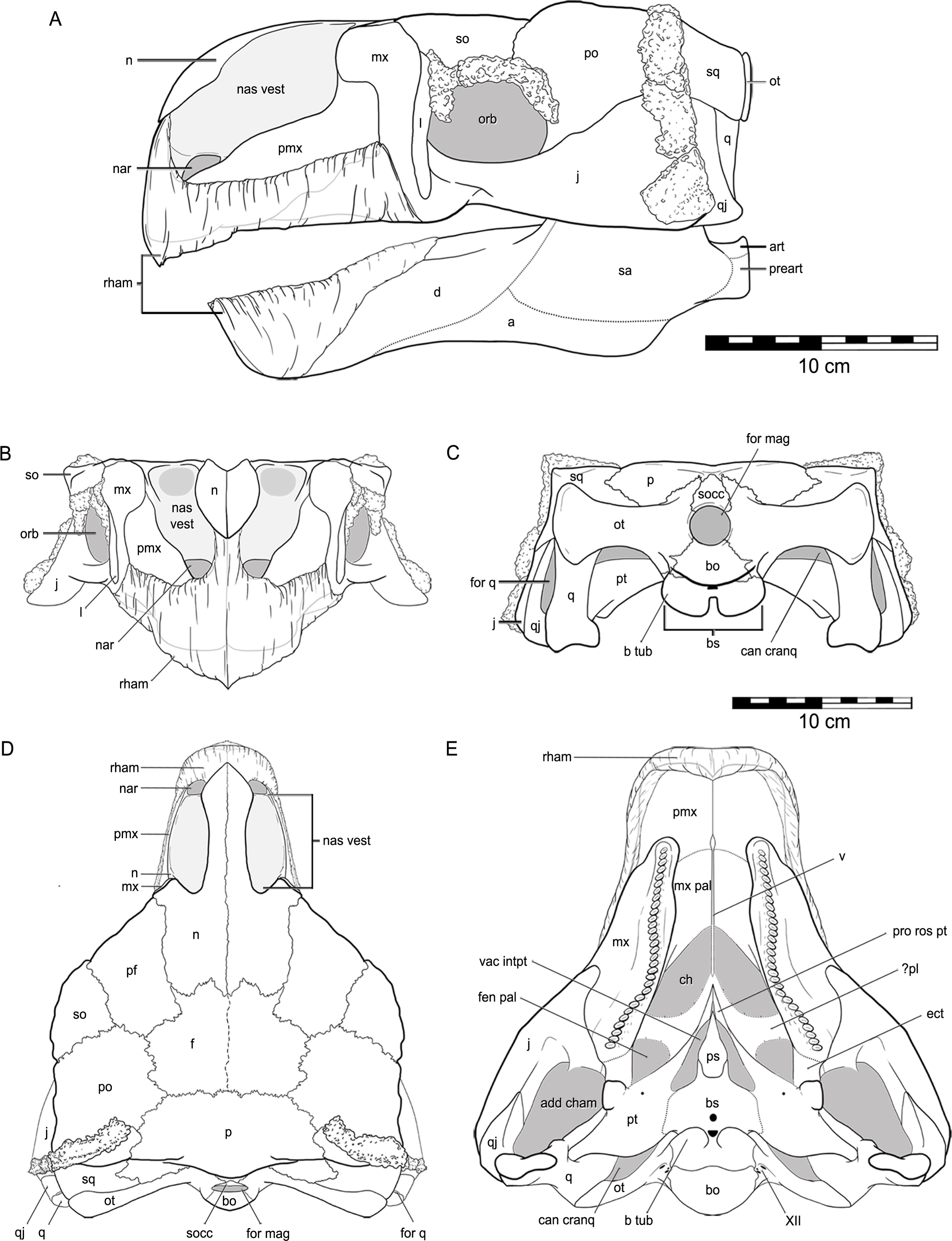 Reconstruction of the skull of Kunbarrasaurus ieversi gen. et sp. nov. (QM F18101), in (A) left lateral, (B) rostral, (C) caudal, (D) dorsal and (E) ventral aspects. Abbreviations: a, angular; art, articular; d, dentary; for q, quadrate foramen; nar, nares; pr art, prearticular; rham, rhamphotheca; sa, surangular. Legend: grey, void within skull; dashed line, partially fused suture; dotted line, inferred suture; grey line, bone outline or suture beneath rhamphotheca. Portions not known include rhamphotheca, apex of maxillary rostrum, caudal extent of maxillary secondary palate, ventral edges of jugal, quadratojugal and quadrates. Scale bars equal 10 cm.